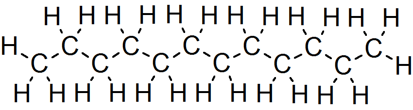 Structure of dodecane with angled bonds, with all atoms explicitly shown. Part of a series drawn in SymyxDraw with ACS settings.